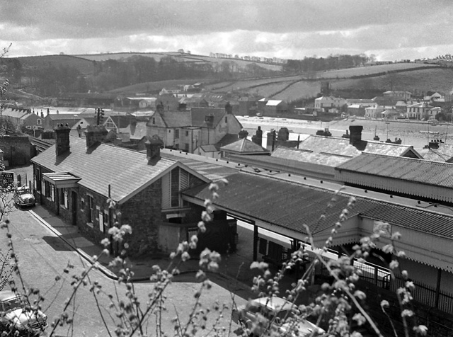 Bideford Station View southward, towards Torrington; ex-London & South Western, Exeter - Barnstaple Junction - Torrington line. This station and the line from Barnstaple Jct. were closed to passengers on 4/10/65 (reopened briefly in 1/68 when road bridge damaged by floods), but the line lingered on with coal from Fremington Quay and milk from Torrington until final closure on 8/11/82.